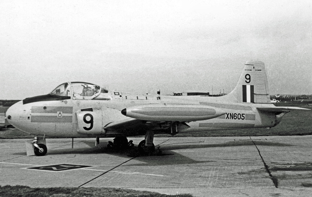 BAC/Hunting Jet Provost T.3 XN605 of No. 6 FTS at RAF Valley